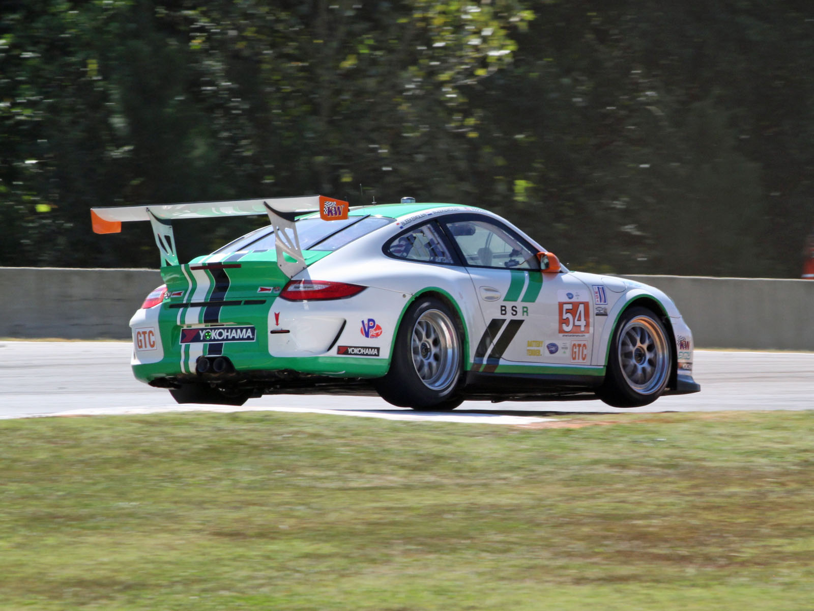 The Black Swan Racing Porsche 997 GT3 Cup in the 2011 Petit Le Mans at Road Atlanta.